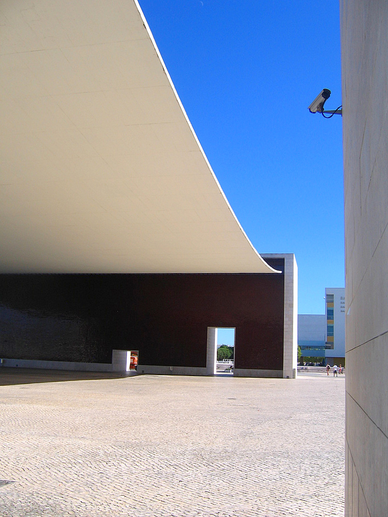 Portugal Pavilion by architect Álvaro Siza at the Parque das Nações in Lisbon.